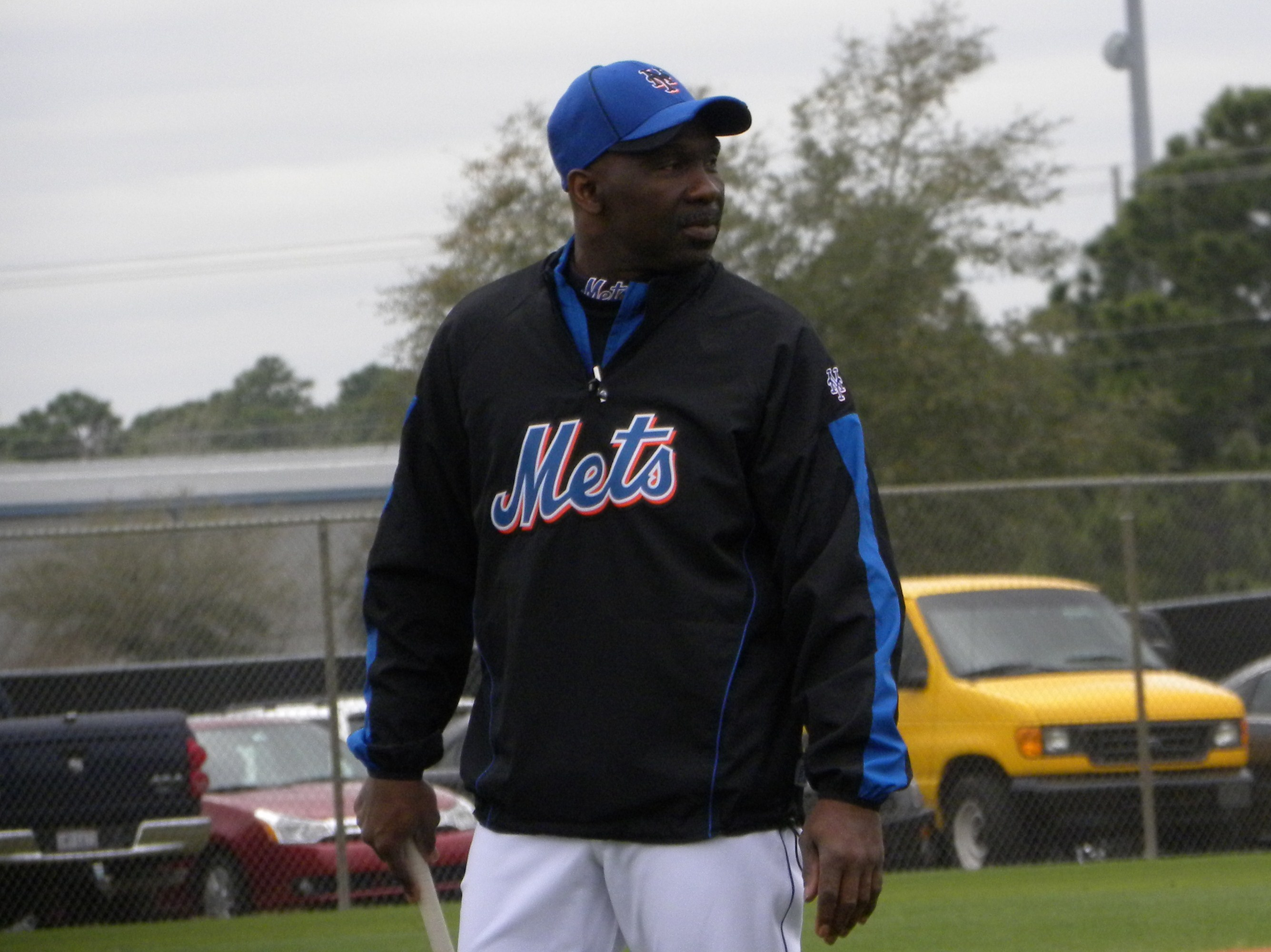 Mookie Wilson